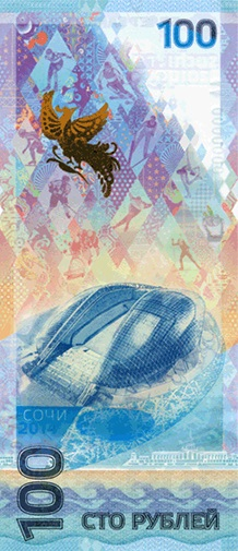 Russia 2014 Olympic banknote 100 rubles, vertically oriented